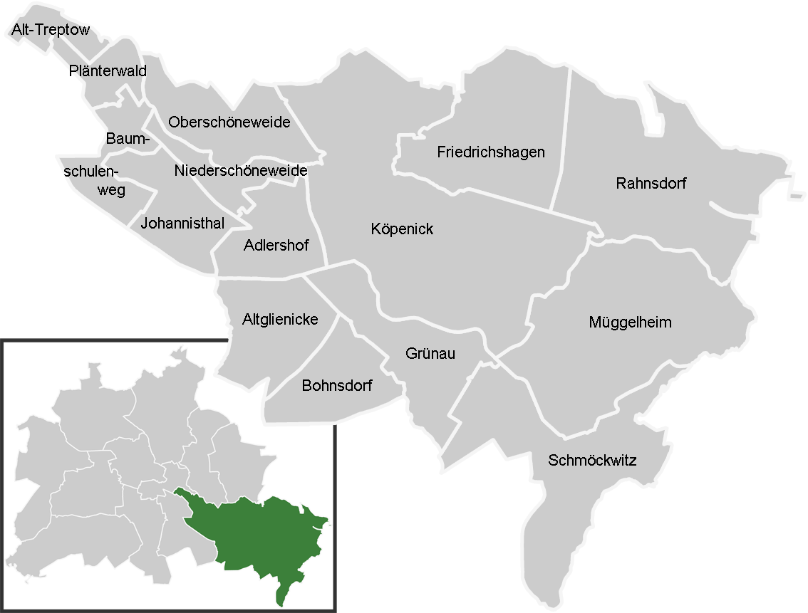 The localities in borough Treptow-Köpenick of Berlin.